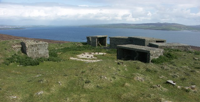 Lyrawa Hill. Viewpoint on site of WWII Heavy Anti Aircraft gun site